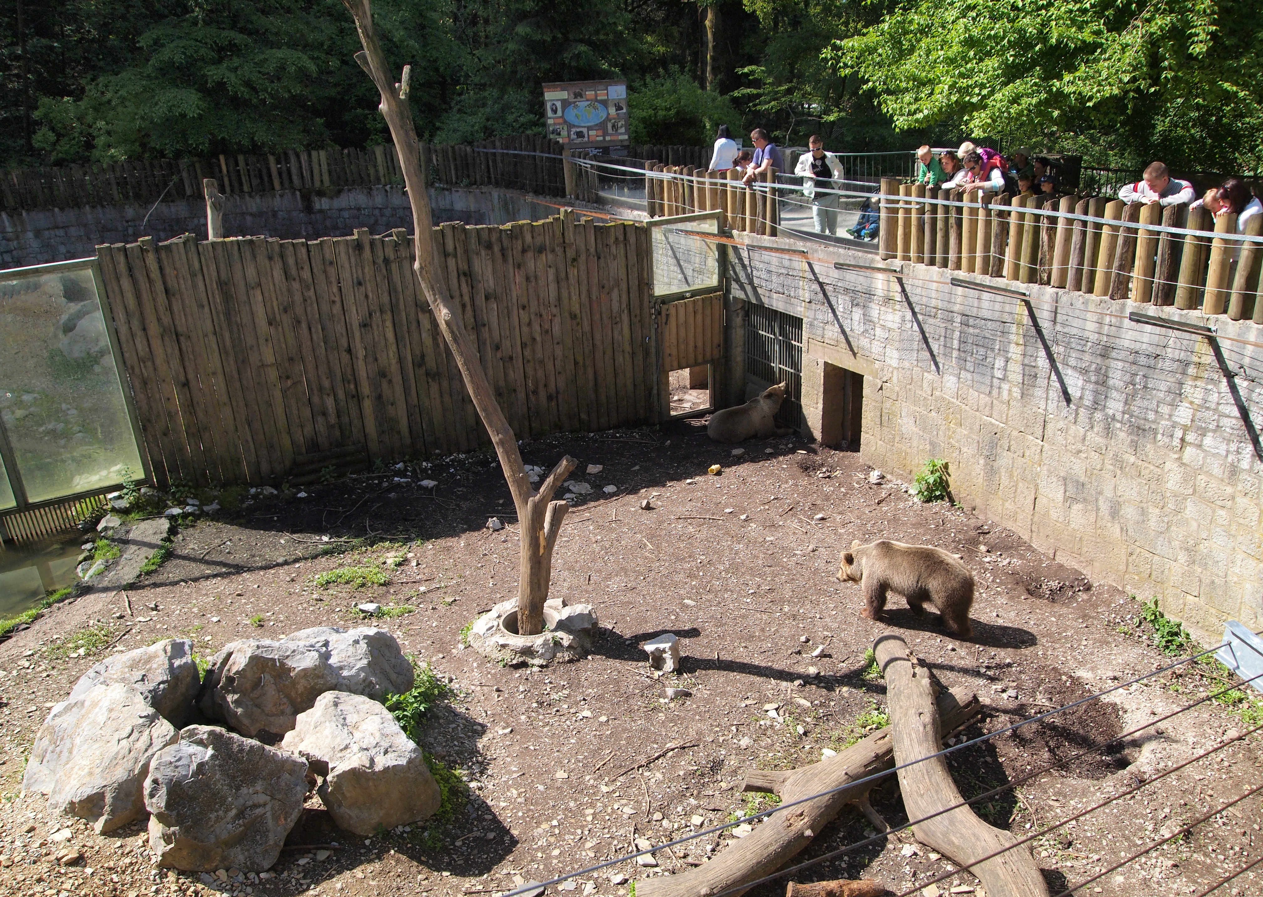 Bear cage in Ljubljana Zoo. This photograph was taken with an Olympus E-PL1